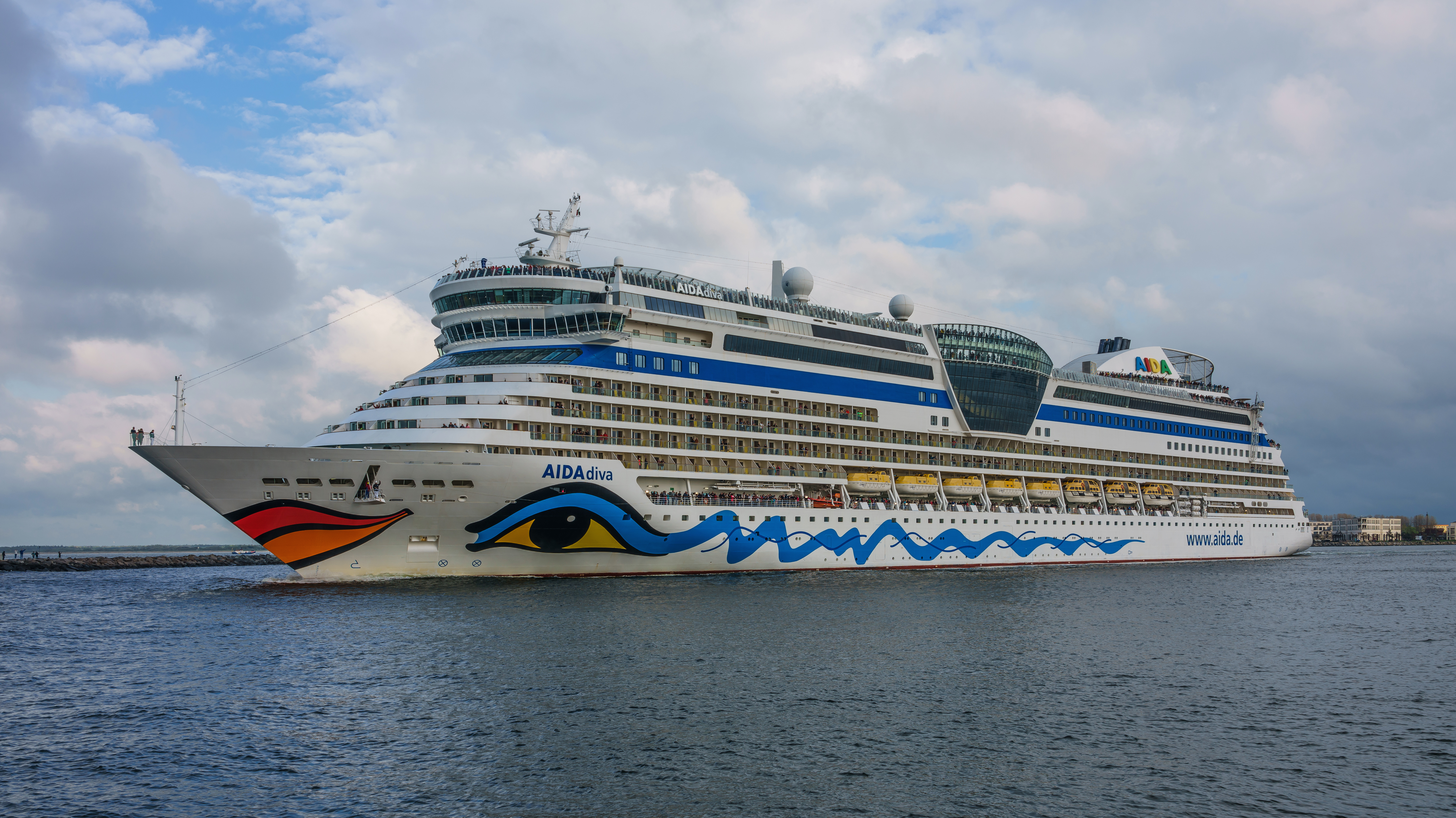 Cruise ship AIDAdiva near the port of Warnemünde, Rostock, Germany